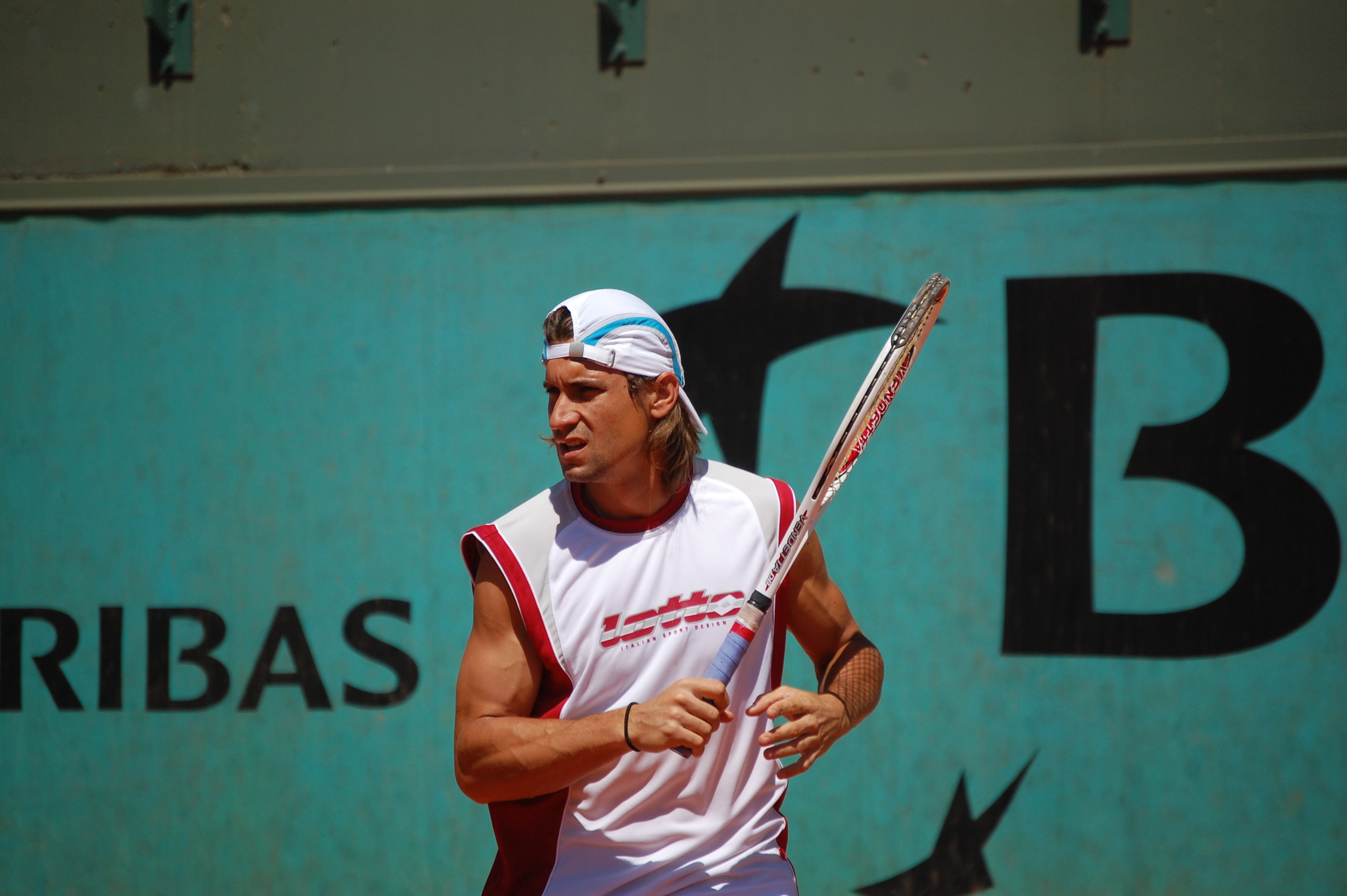 David Ferrer training in Roland Garros, during 2009 French Open